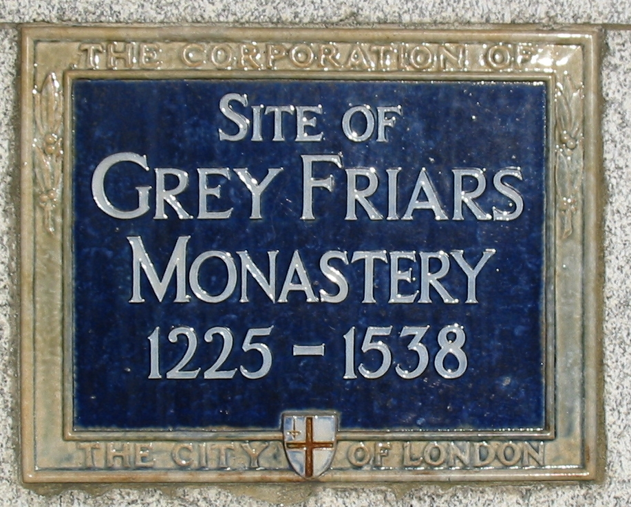 Plaque on the site of Grey Friars, New Gate, City of London, England Nrf: Pliaque à Londres